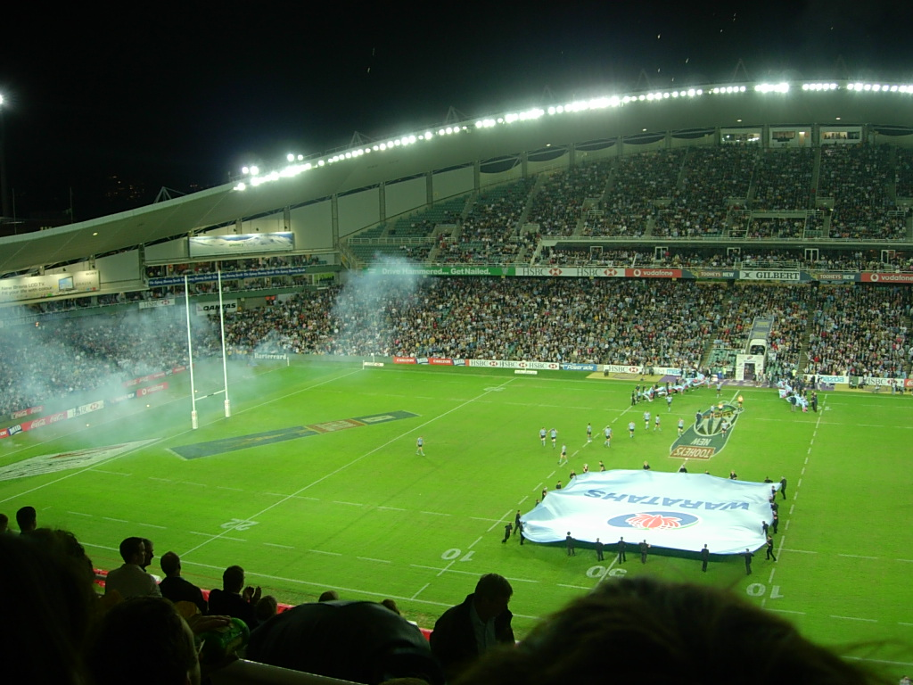 Waratahs versus the Brumbies, 16th April 2006, Aussie Stadium